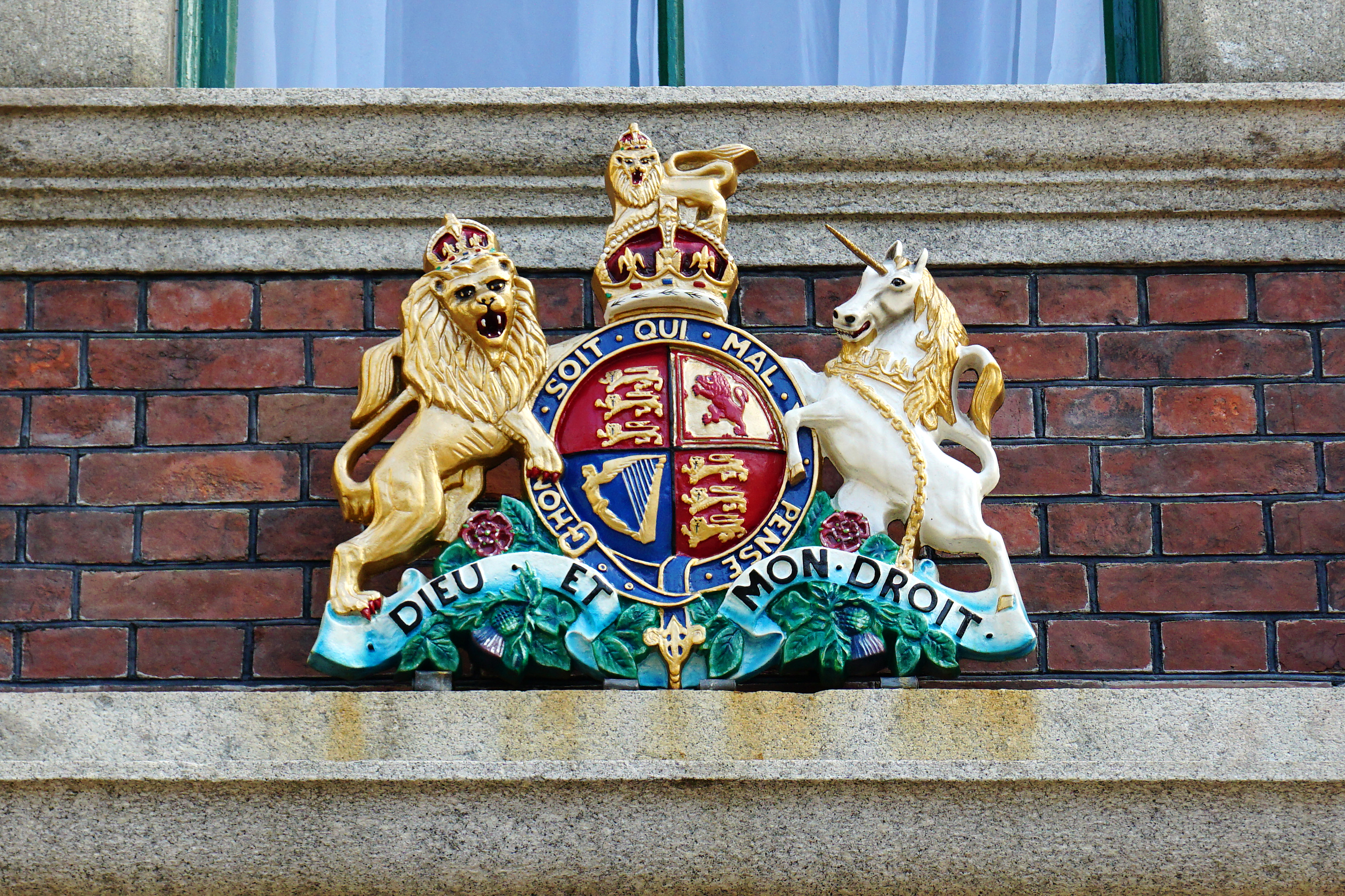 Former_British_Consulate in Shimonoseki, Yamaguchi prefecture, Japan.